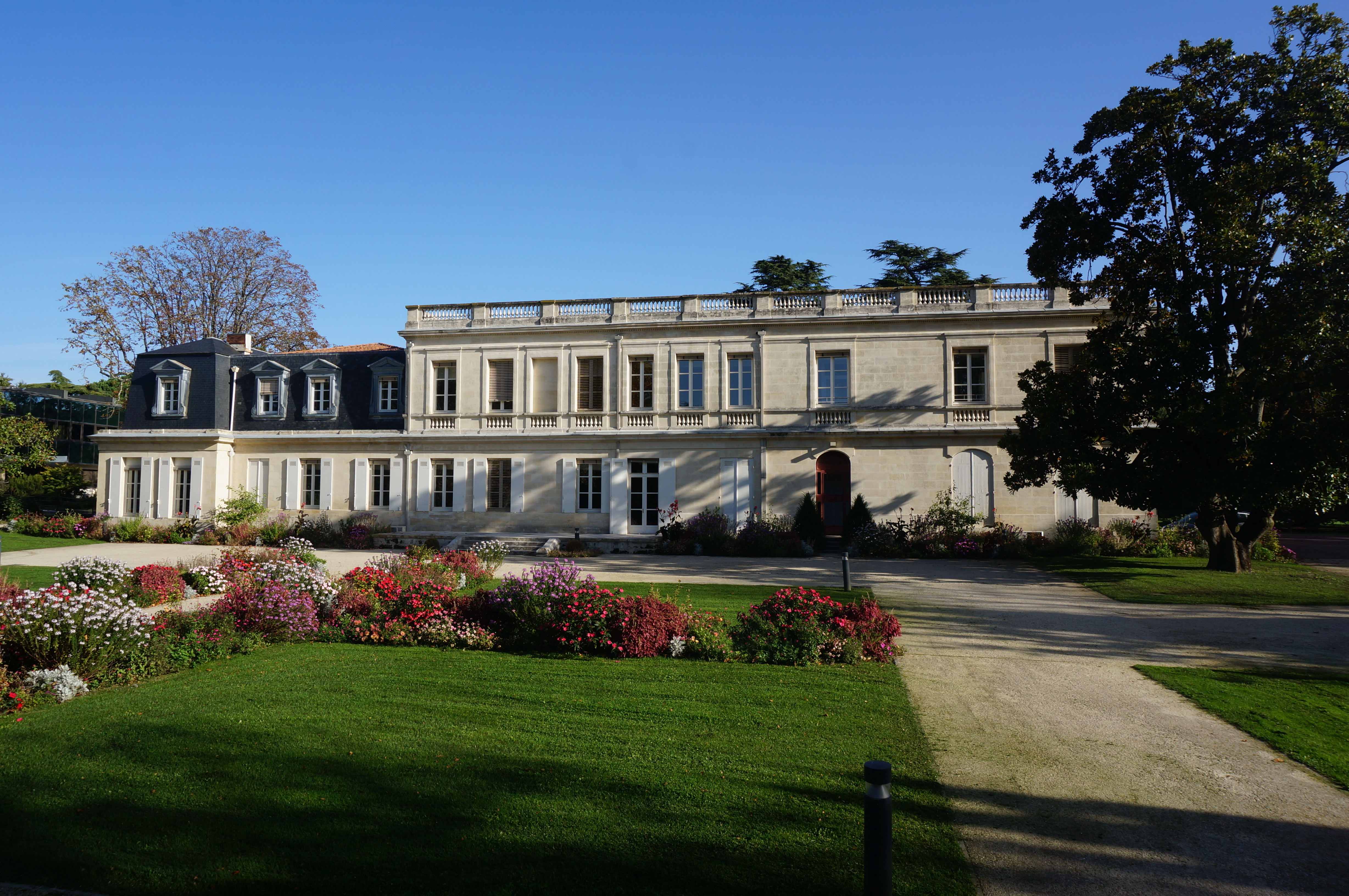 Town hall of Merignac (Gironde, France) ; castle Le Vivier (1770).